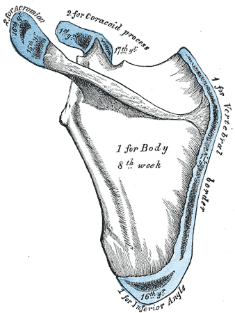 Plan of the development of the scapula, by seven centres.